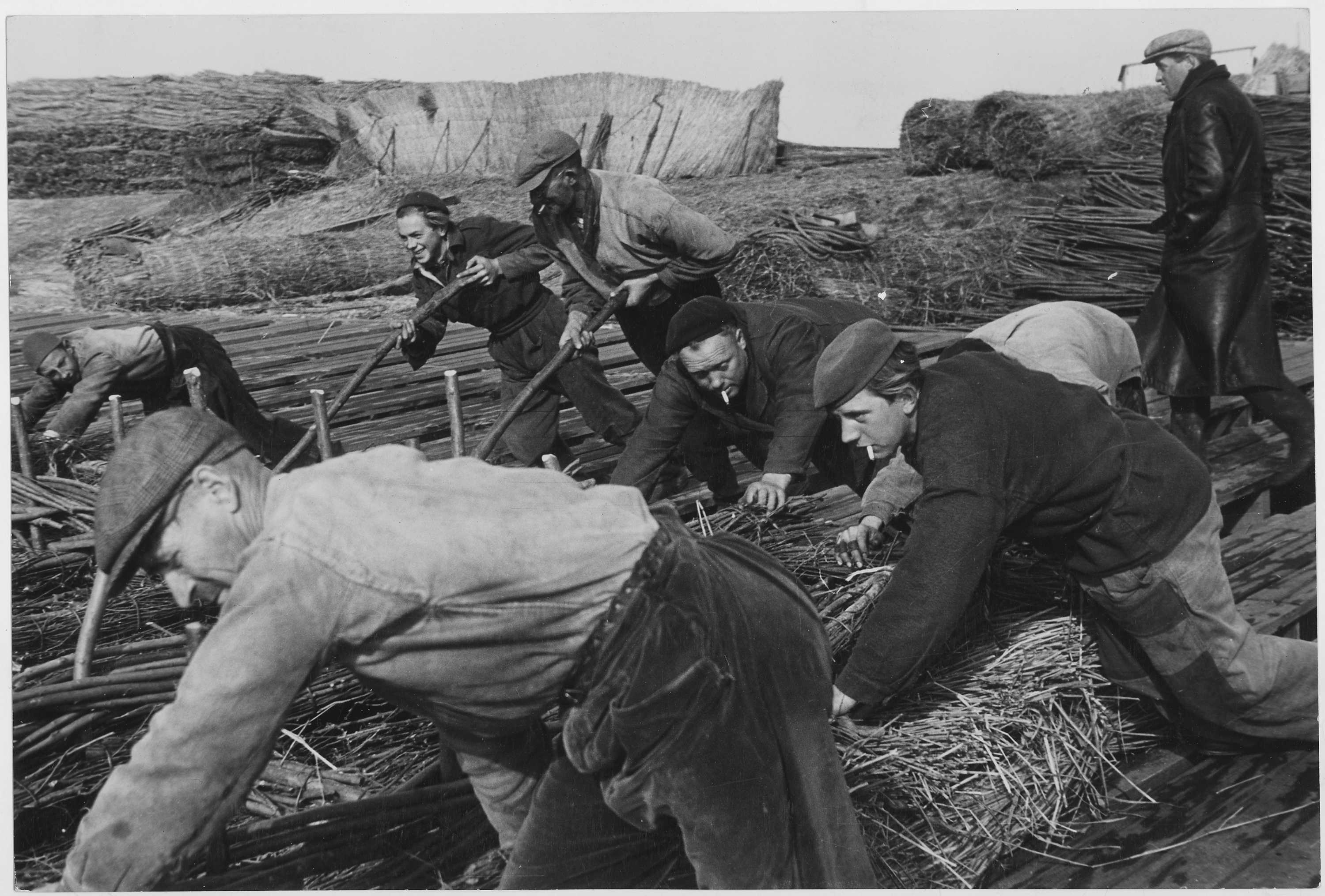 Netherlands. [An additional 480 square miles is being reclaimed with the aid of Marshall Plan counterpart fund. This area, now part of a vast sea indenting the coastline of Holland, the Zuyder Zee, is being fenced with dykes. In five or six years it will be productive farmland.], ca. 1948 - ca. 1955